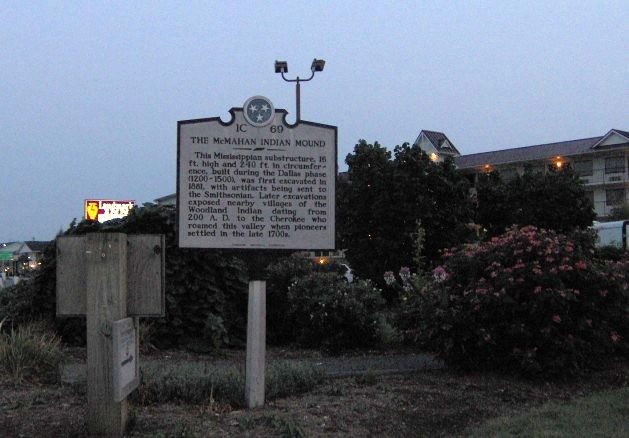 Tennessee Historical Commission sign marking the location of the ancient McMahan Indian Mounds in Sevierville, Tennessee (U.S.). The sign reads: This Mississippian substructure, 16 ft. high and 240 ft. in circumference, built during the Dallas phase (1200-1500), was first excavated in 1881, with artifacts being sent to the Smithsonian. Later excavations exposed nearby villages of the Woodland Indian dating from 200 A.D. to the Cherokee who roamed this valley when pioneers settled in the late 1700s.